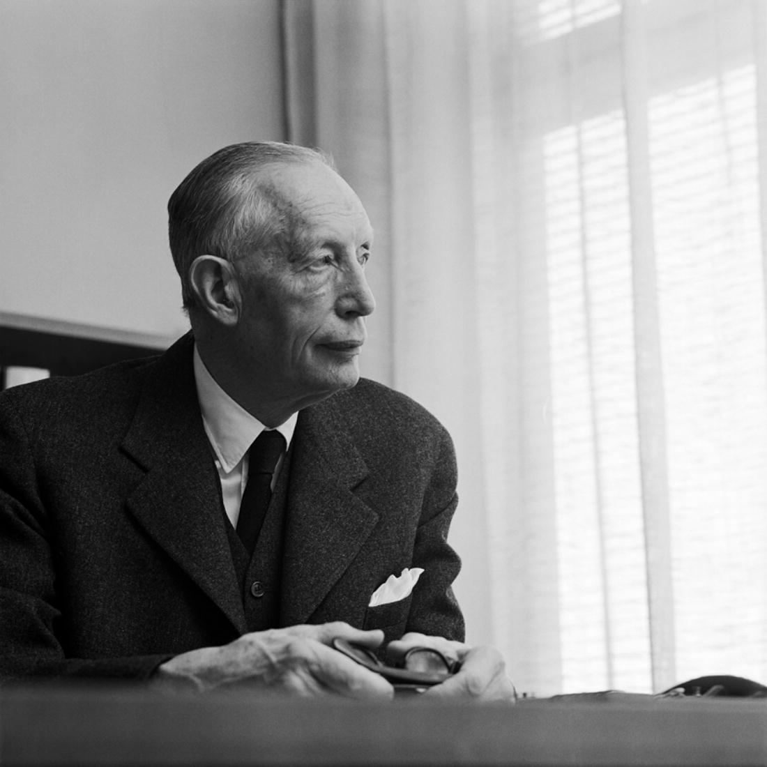 Tetra Pak founder Ruben Rausing